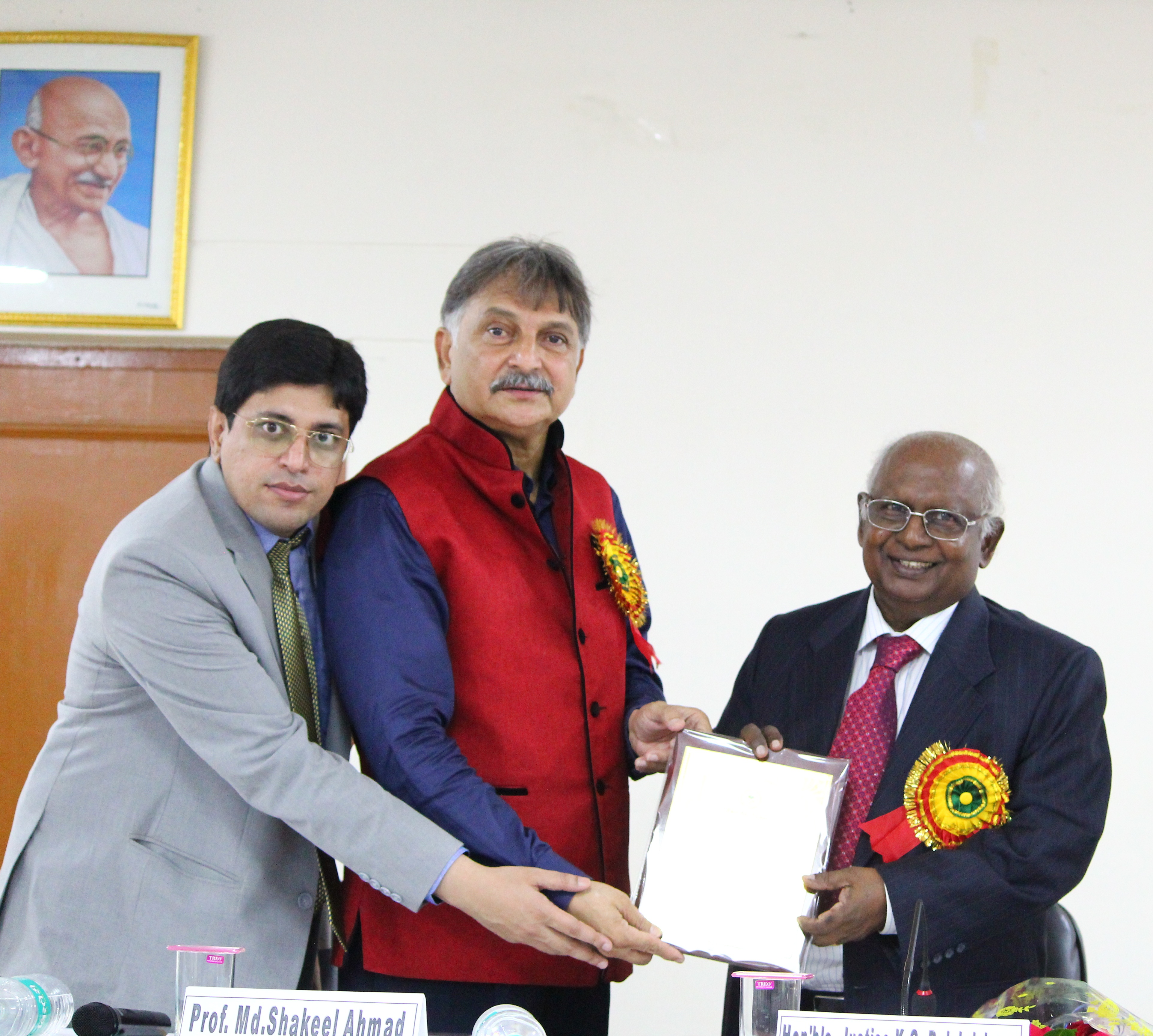 Prof. Shakeel Samdani, Dean, Faculty of Law, AMU felicitating Justice K G Balakrishnan, Former Chief Justice of India in an event.